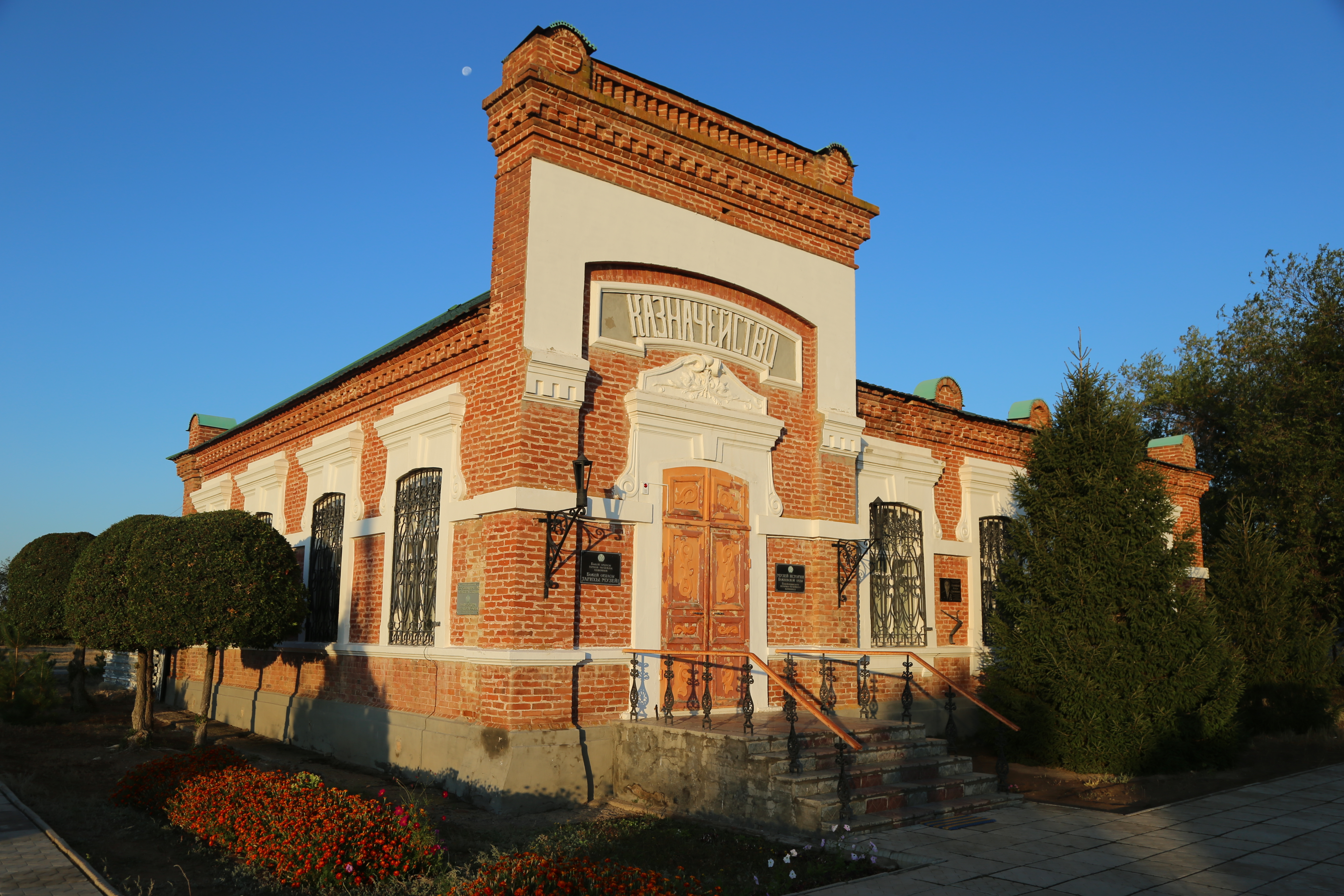 Khan Ordasy Treasury